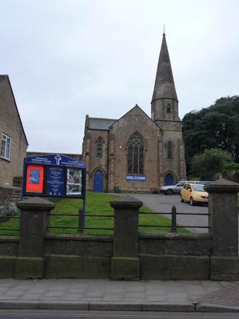 Crewkerne : St Peter's Roman Catholic Church